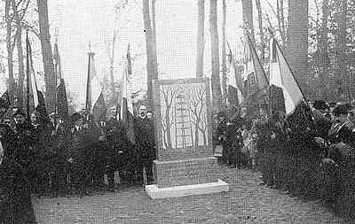 inauguration 1926